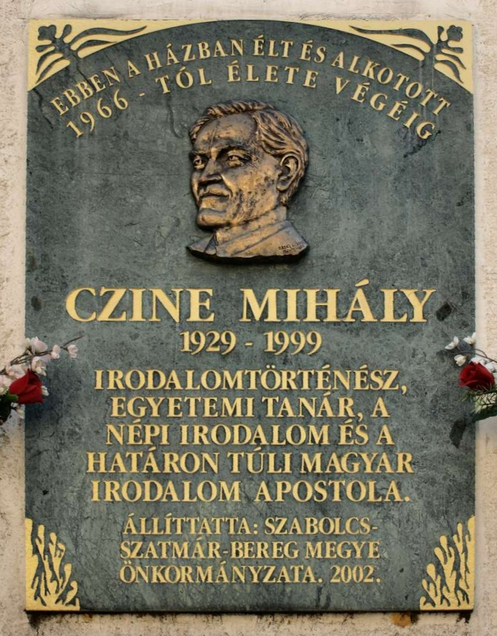 Mihály Czine commemorative plaque with relief in Budapest District I, Szabó Ilonka Street No 31